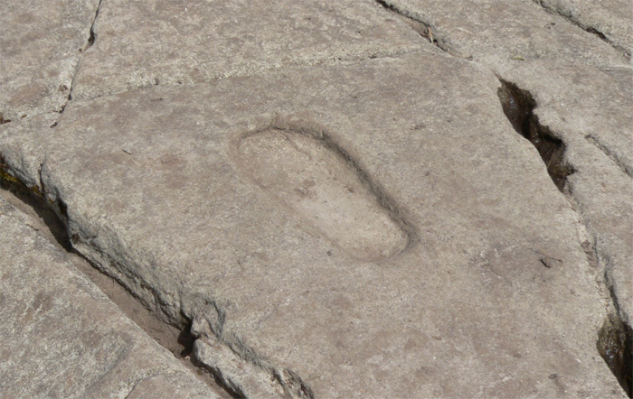 Dunadd Fort, Kilmartin Glen, Scotland - footprint carved in the rock